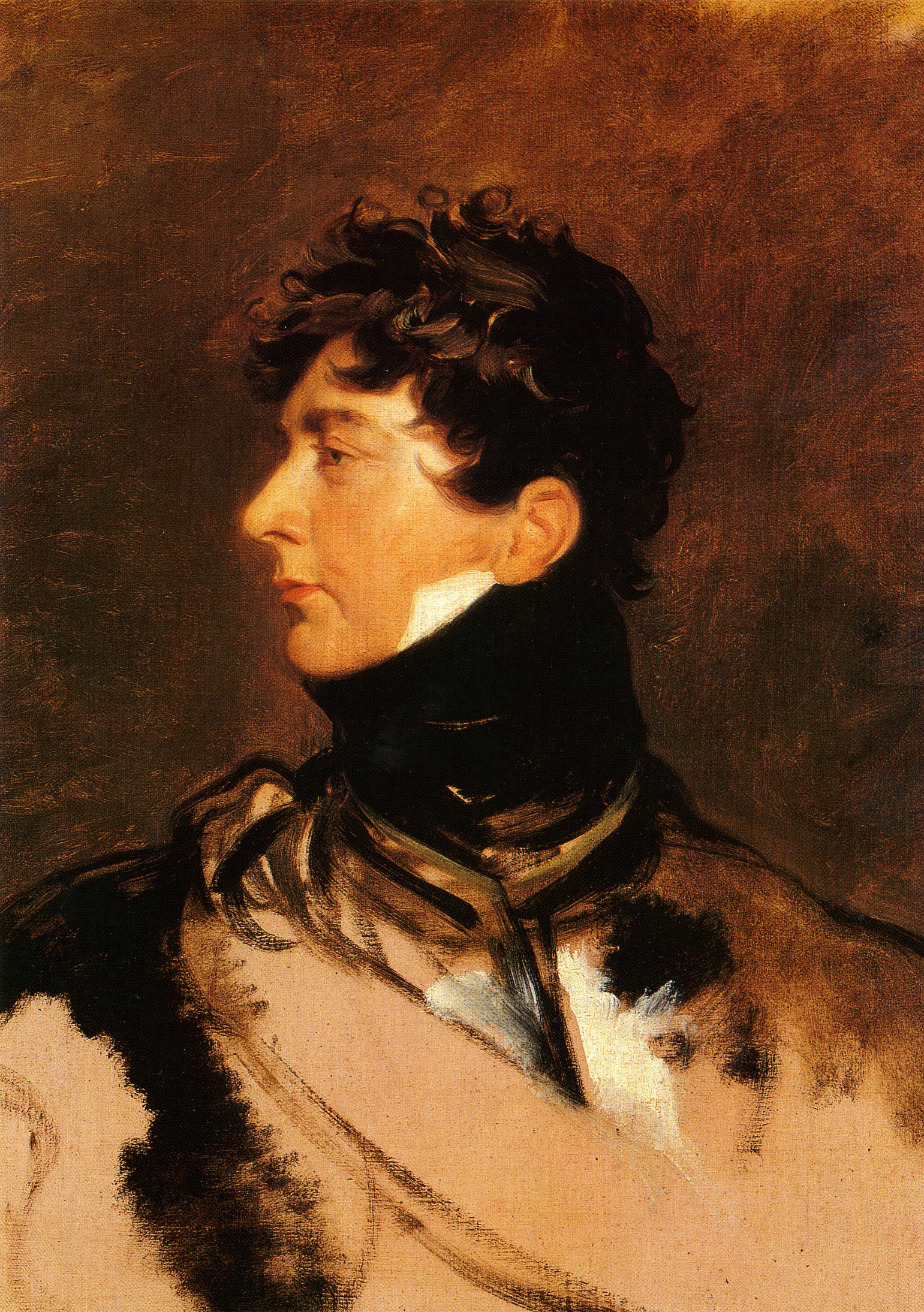 George IV of the United Kingdom as the Prince Regent, circa 1814. He served as king of the United Kingdom of Great Britain and Ireland from 1820 to 1830. The Regency, George's nine-year tenure as Prince Regent, which commenced in 1811 and ended with George III's death in 1820, was marked by victory in the Napoleonic Wars in Europe. ---- George IV of the United Kingdom (1762-1830), Regent 1811-20; reigned 1820-30. Oil on canvas, 36 in. x 28 in. (914 mm x 711 mm), purchased, 1861, on display in Room 17 at the National Portrait Gallery. Artist: (quoted from the National Portrait Gallery) Sir Thomas Lawrence (1769-1830), Portrait painter, collector and President of the Royal Academy. Artist associated with 425 portraits, Sitter in 13 portraits. In 1814, Lord Stewart, who had been appointed ambassador in Vienna and was a previous client of Thomas Lawrence, wanted to commission a portrait by him of the Prince Regent (later King George IV). He therefore arranged that Lawrence should be presented to the Prince Regent at a levée. Soon after, the Prince visited Lawrence at his studio in Russell Square. Lawrence wrote to his brother that To crown this honour, [he] engag'd to sit to me at one today and after a successful sitting of two hours, has just left me and comes again tomorrow and the next day. The result was a drawing in the Royal Collection, this dashing oil sketch of his head in profile like a Classical god and a large portrait of him in Field Marshall's uniform.